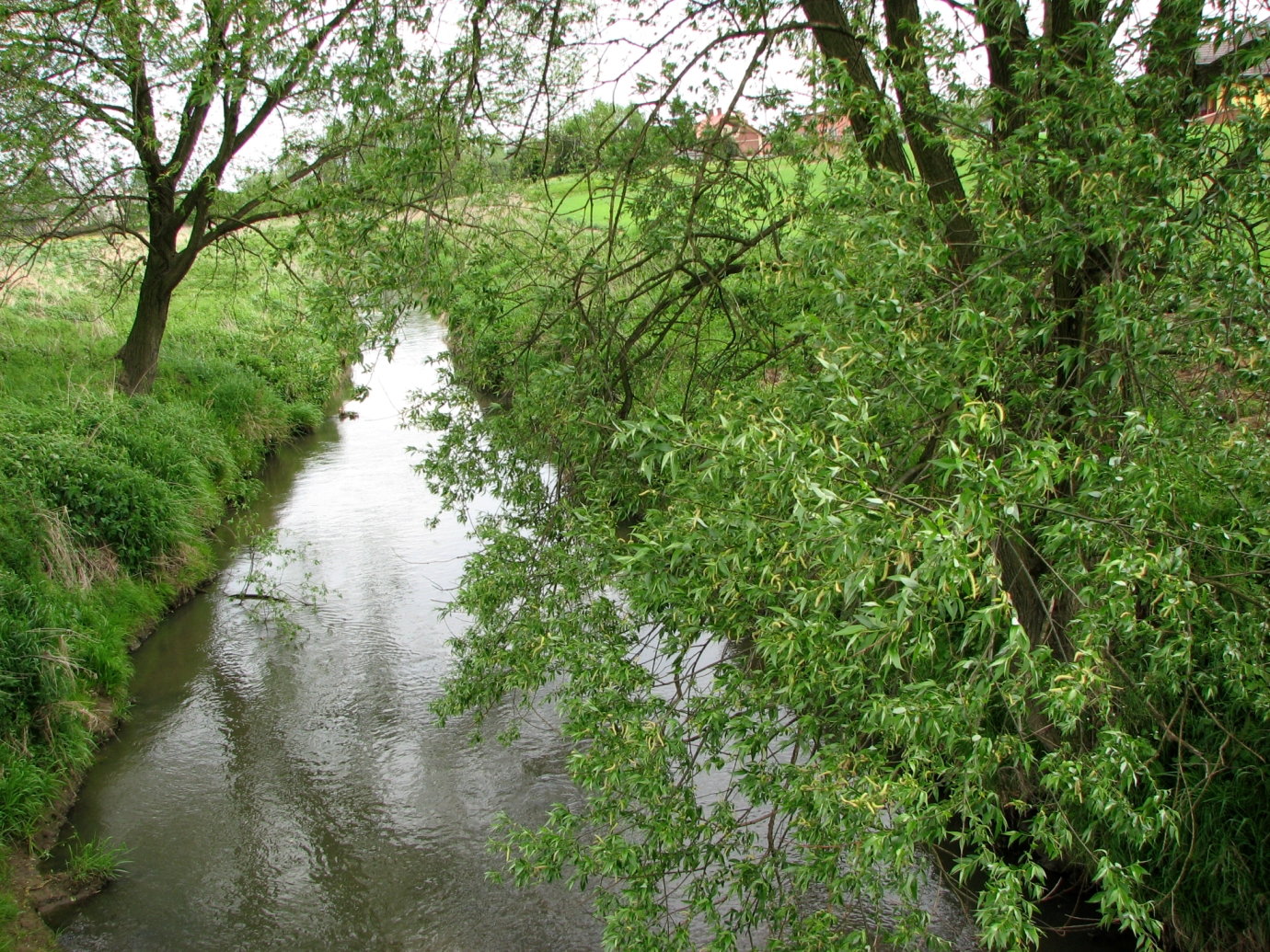 Piotrówka, river, Silesian Voivodeship, Marklowice, Poland